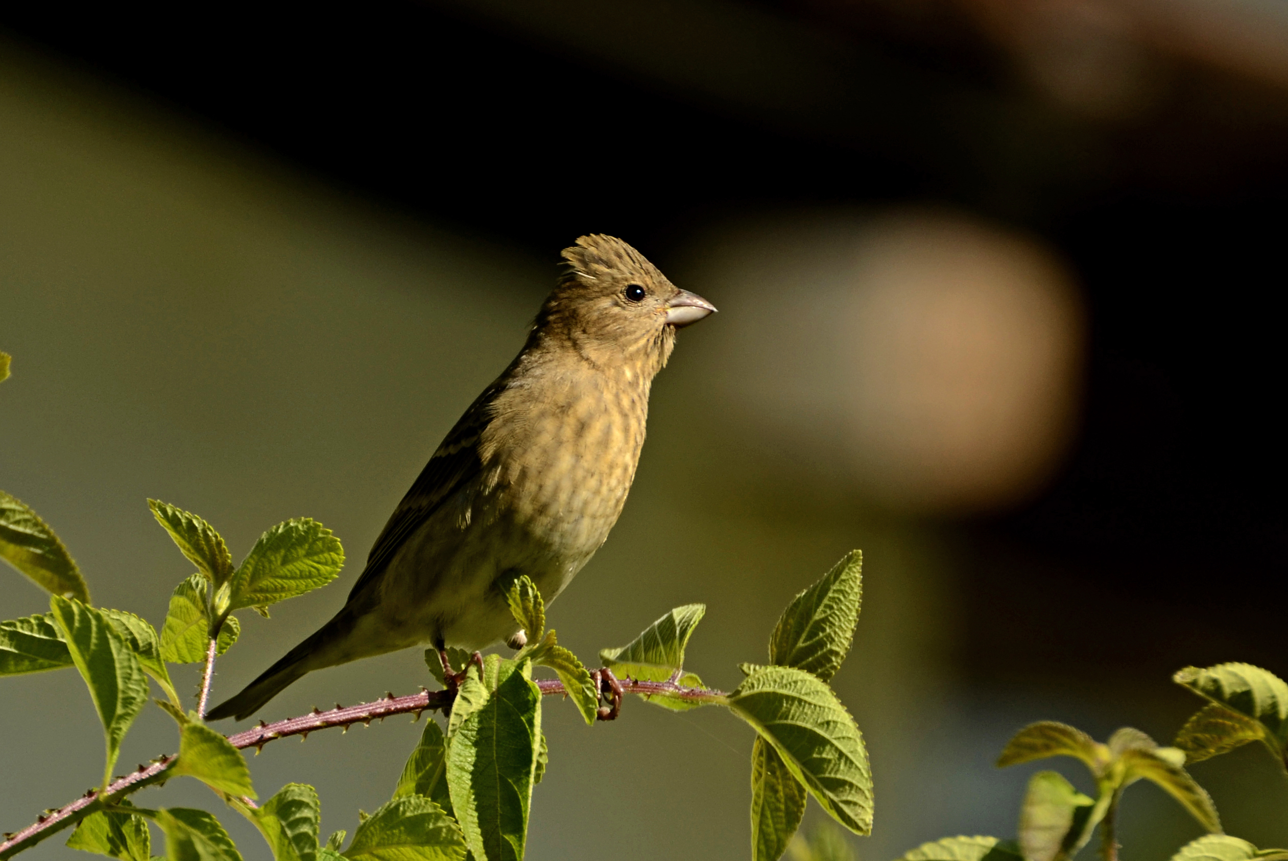 Common Rosefinch Carpodacus erythrinus Female from Anamalali Hills, Southern Western Ghats, India.